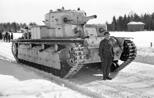 Russian tank captured by the Finns in Varkaus at the end of the Winter War.